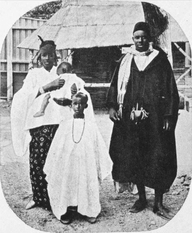 Africans exhibited at the 1914 Jubilee Exhibition in Christiania (Oslo), Norway.